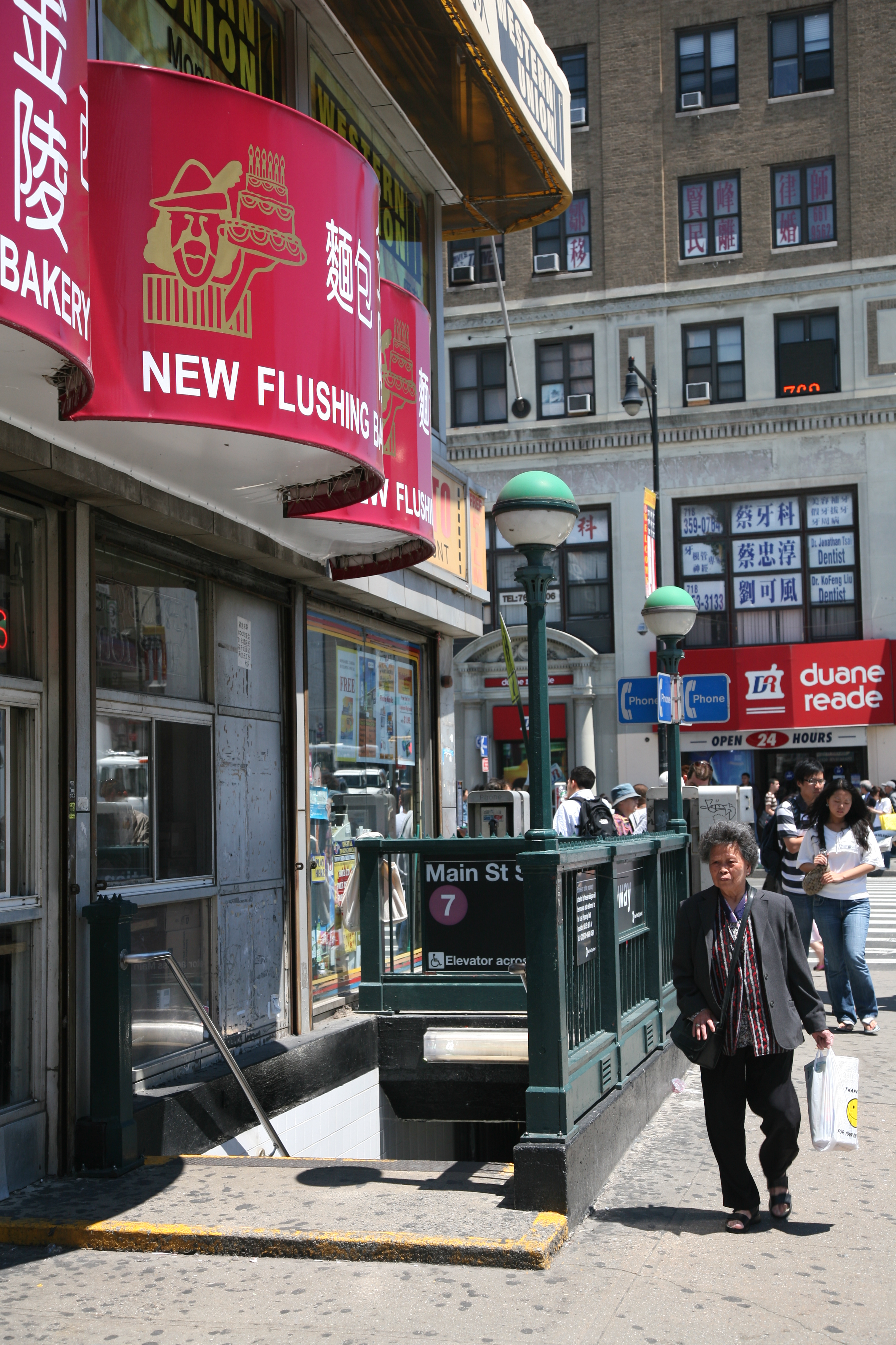 Main Street Flushing station, New York City Subway